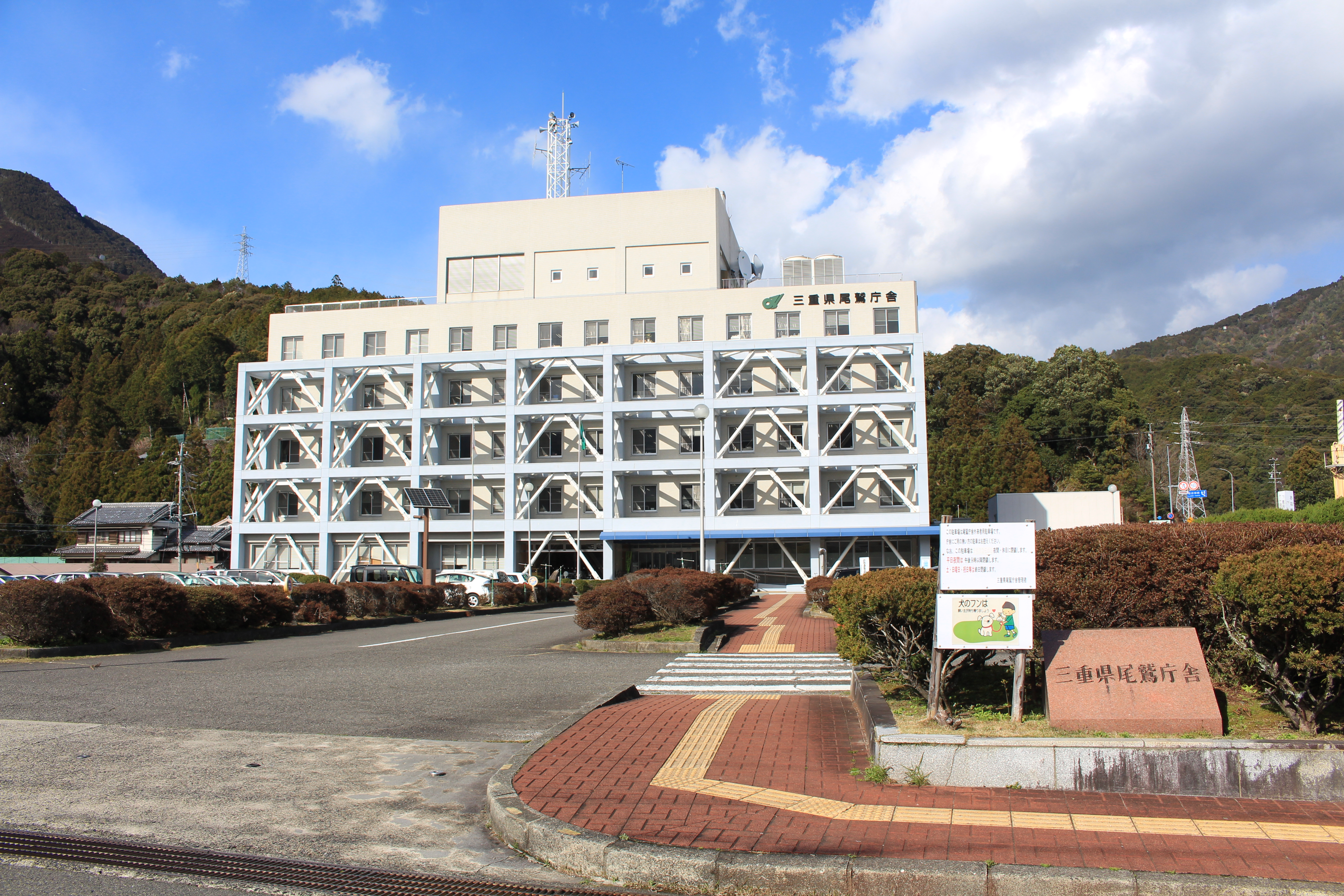 Owase office building of Mie prefectural in Japan.